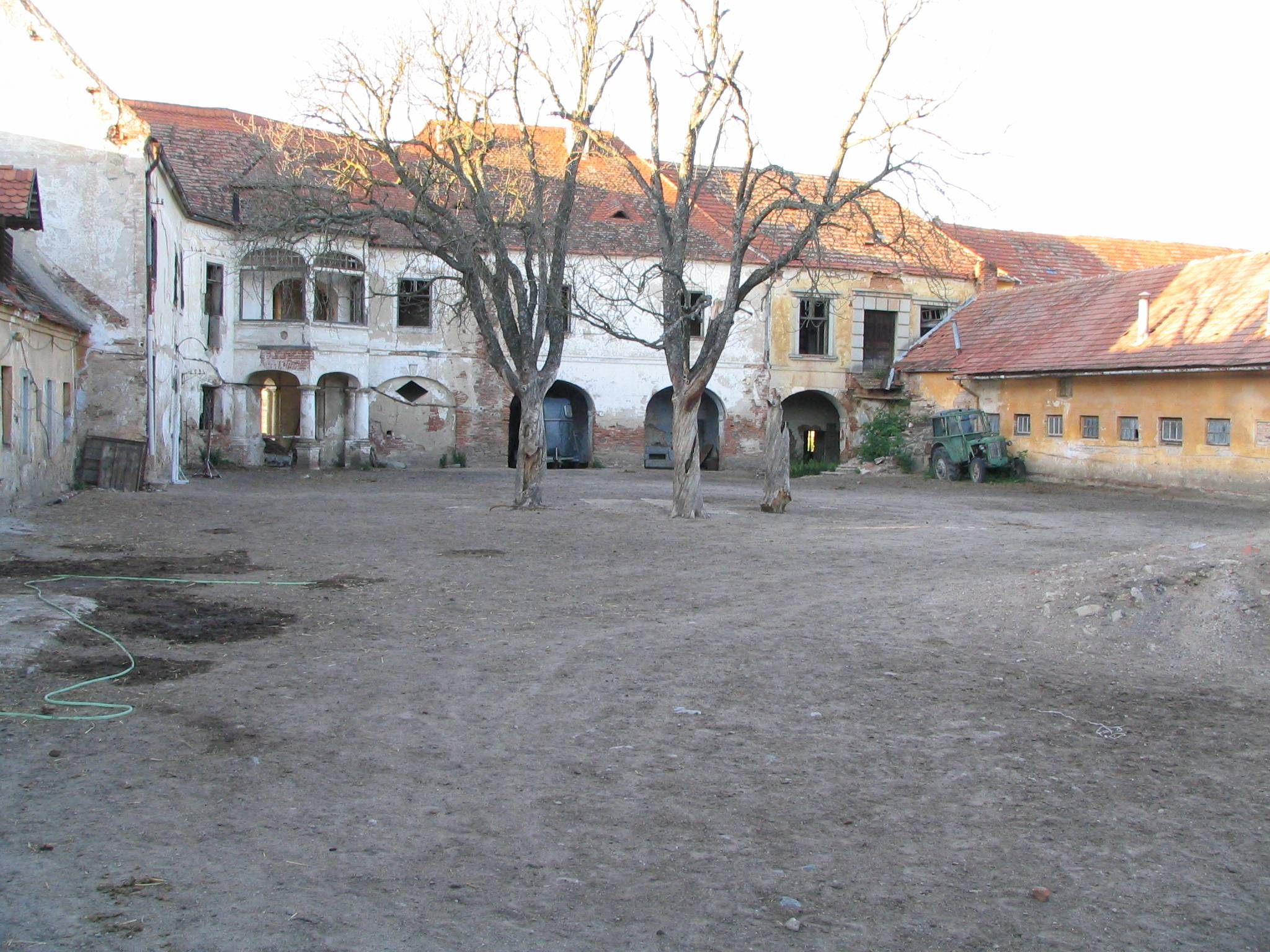 court of castle Rešice in year 2007